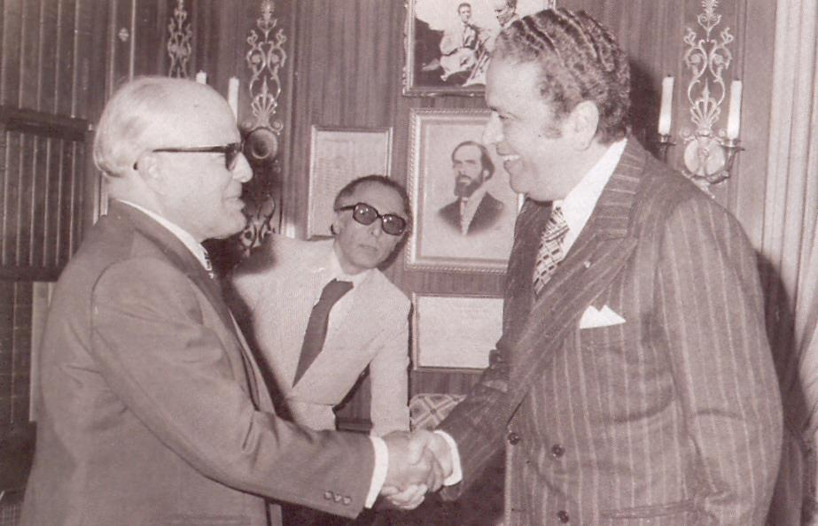 Tunisian President Bourguiba saluating Tunisian ambassador in France Hedi Mabrouk, Minister Chedly Klibi is also seen at the background.